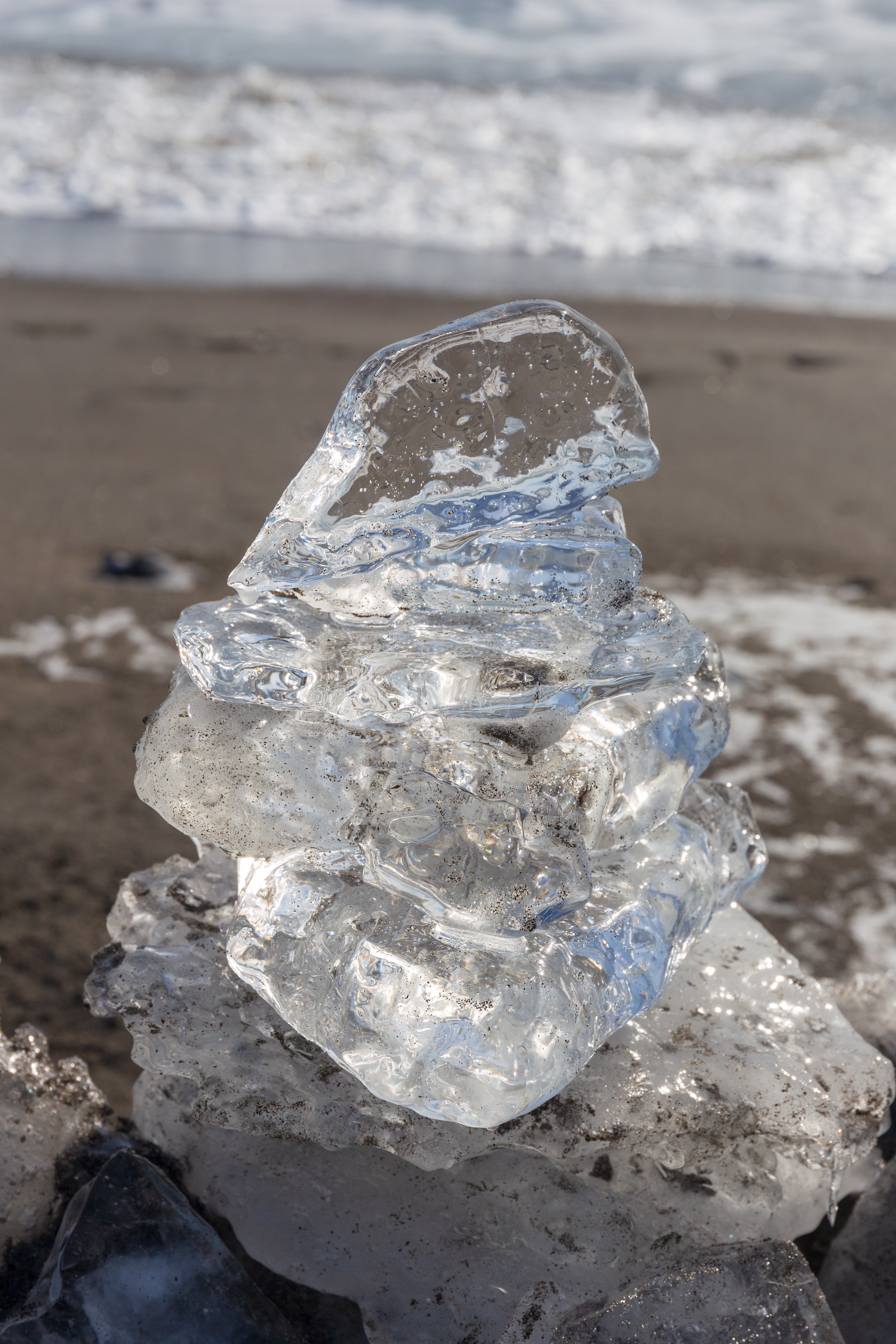 Chunks of Jewelry Ice on the Otsu Coast in Toyokoro Town, Hokkaido, Japan